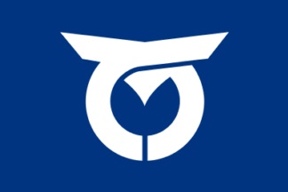 Flag of Ikusaka Nagano